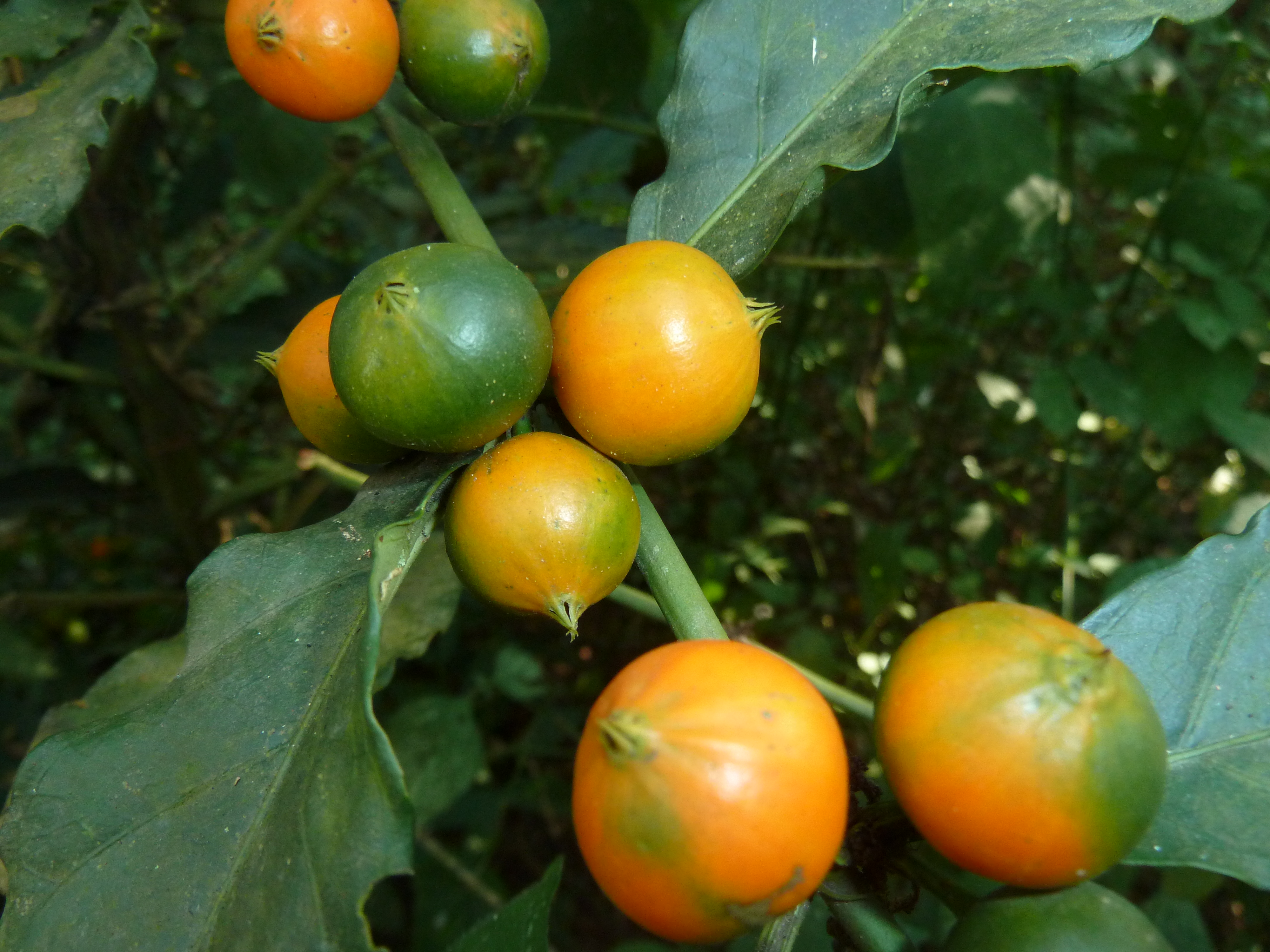 Fruit of a Dwarf-loquat at The Waterberry in Ballito, KZN